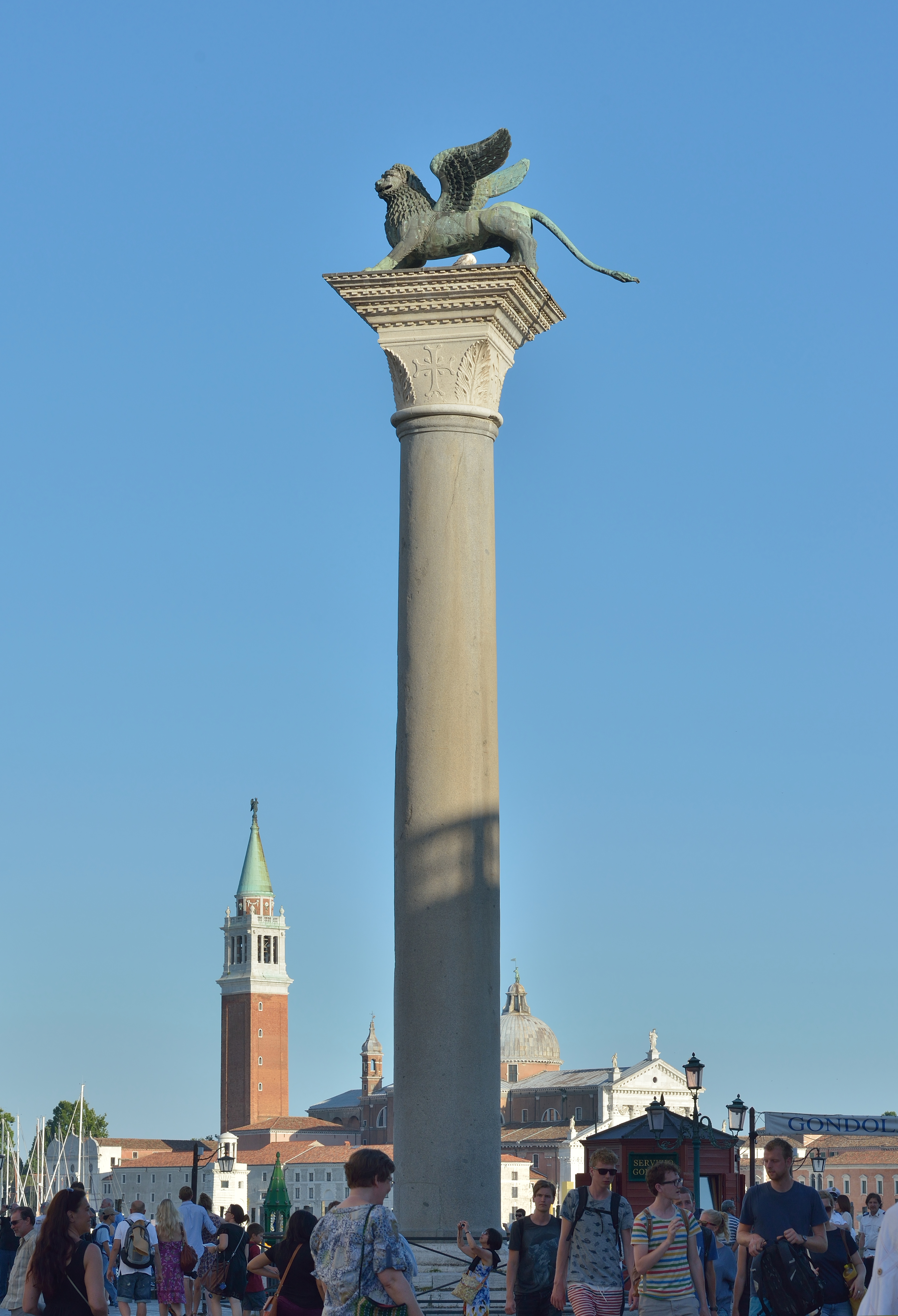 Column buildt by Nicolò Barattieri in the 12th century with bronze lion of Saint Marc on Piazzetta San Marco in Venice